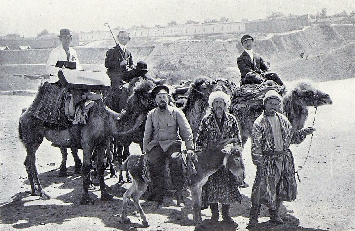 Jaroslav Kocian, Czech violonist, Samarkand, 1912